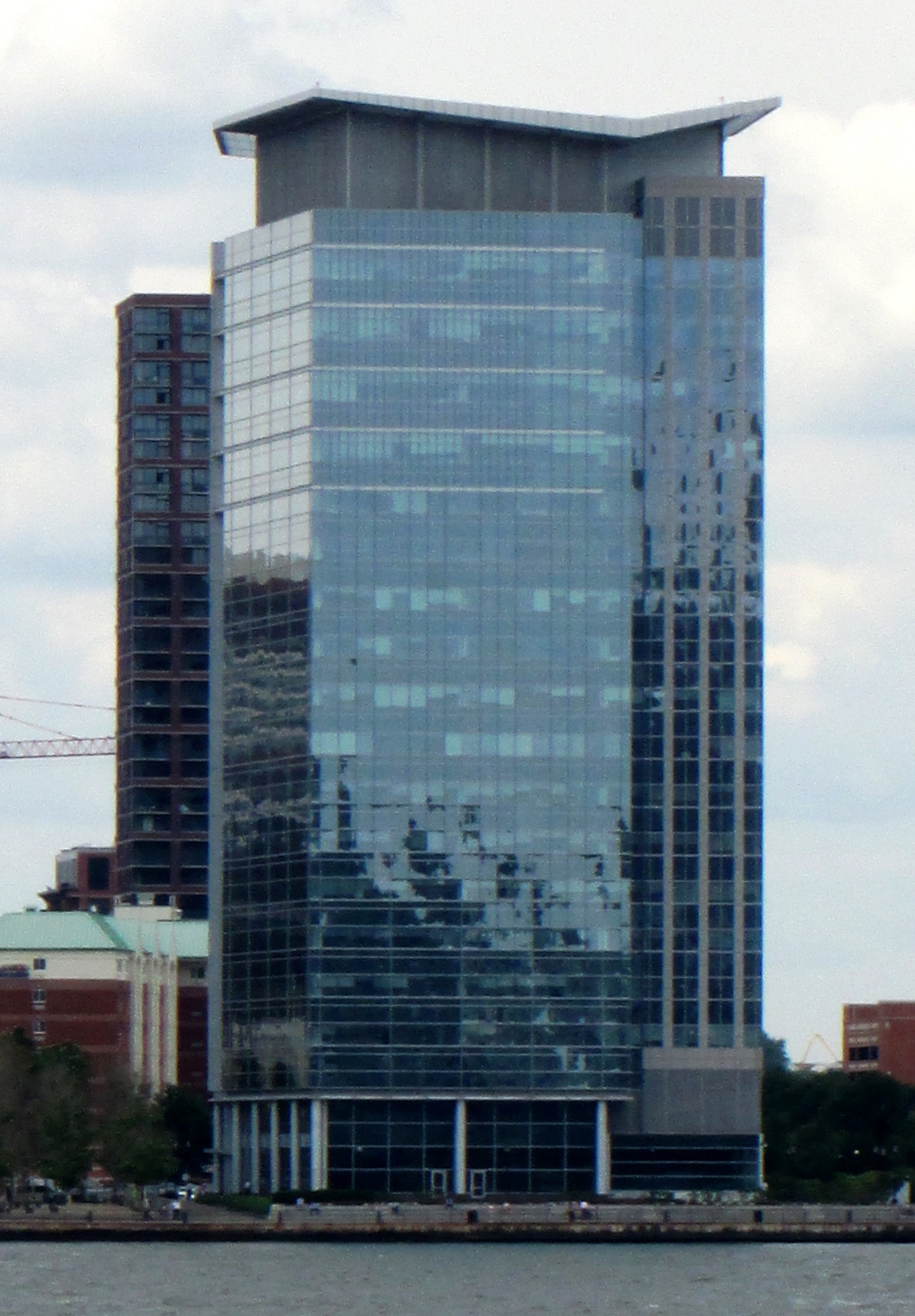 Harborside Plaza 10 at 3 2nd Street in Jersey City, New Jersey, as seen from Rockefeller Park, Battery Park City, Manhattan, New York City.